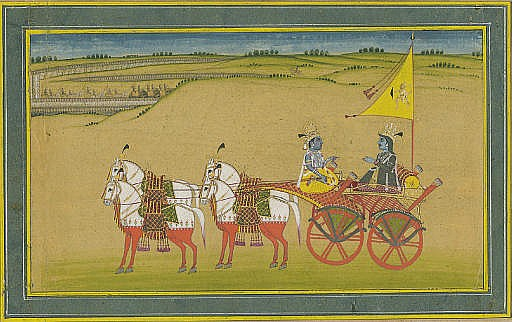 A Scene from the Mahabharata: The Delivery of the Bhagavad Gita India, Kishangarh, early 19th century Krishna as Arjun's charioteer delivering the Bhagavad Gita, Arjun's hands folded in prayer to receive his wisdom, the four hourses elegantlhy caprisoned, set against the hills, the multitudes of the army repeated in the background Opaque pigments and gold on wasli 4¼ x 6¾ in. (10.8 x 17.2 cm.) Notes: For a related painting see Davidson, Art of the Indian Subcontinent , 1968. Artist or Maker: INDIA, KISHANGARH, EARLY 19TH CENTURY